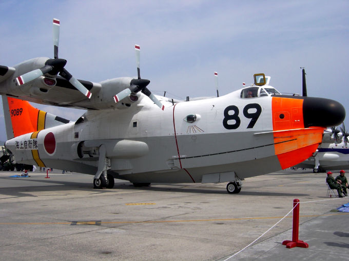 US-1A-Flying boat(US-1A),The U.S. military Iwakuni base